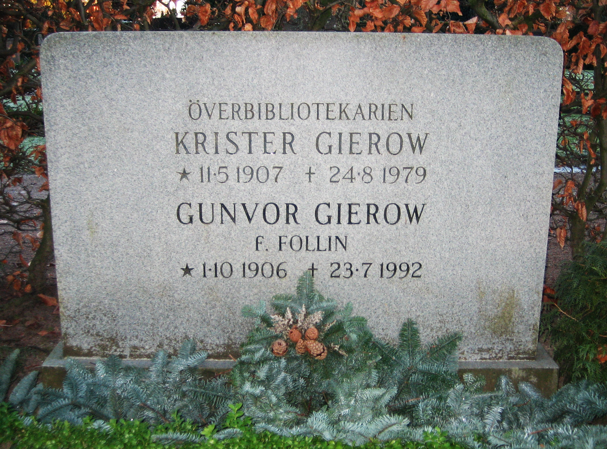 Grave of Swedish head librarian Krister Gierow (1907-1979). Photo taken on Norra kyrkogården, Lund, Sweden, 090105 by the uploader.